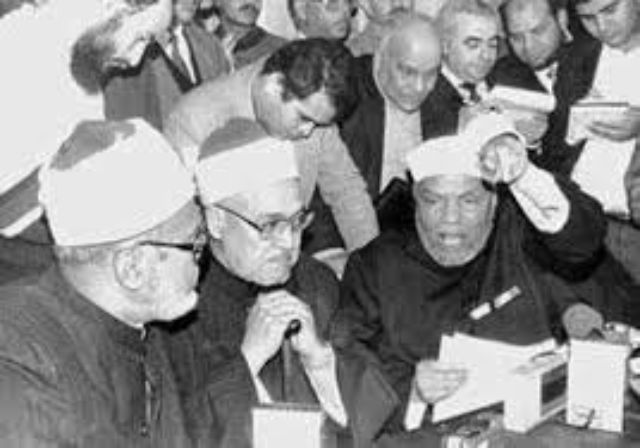 Elsharawi in Awqaf ministry 1978